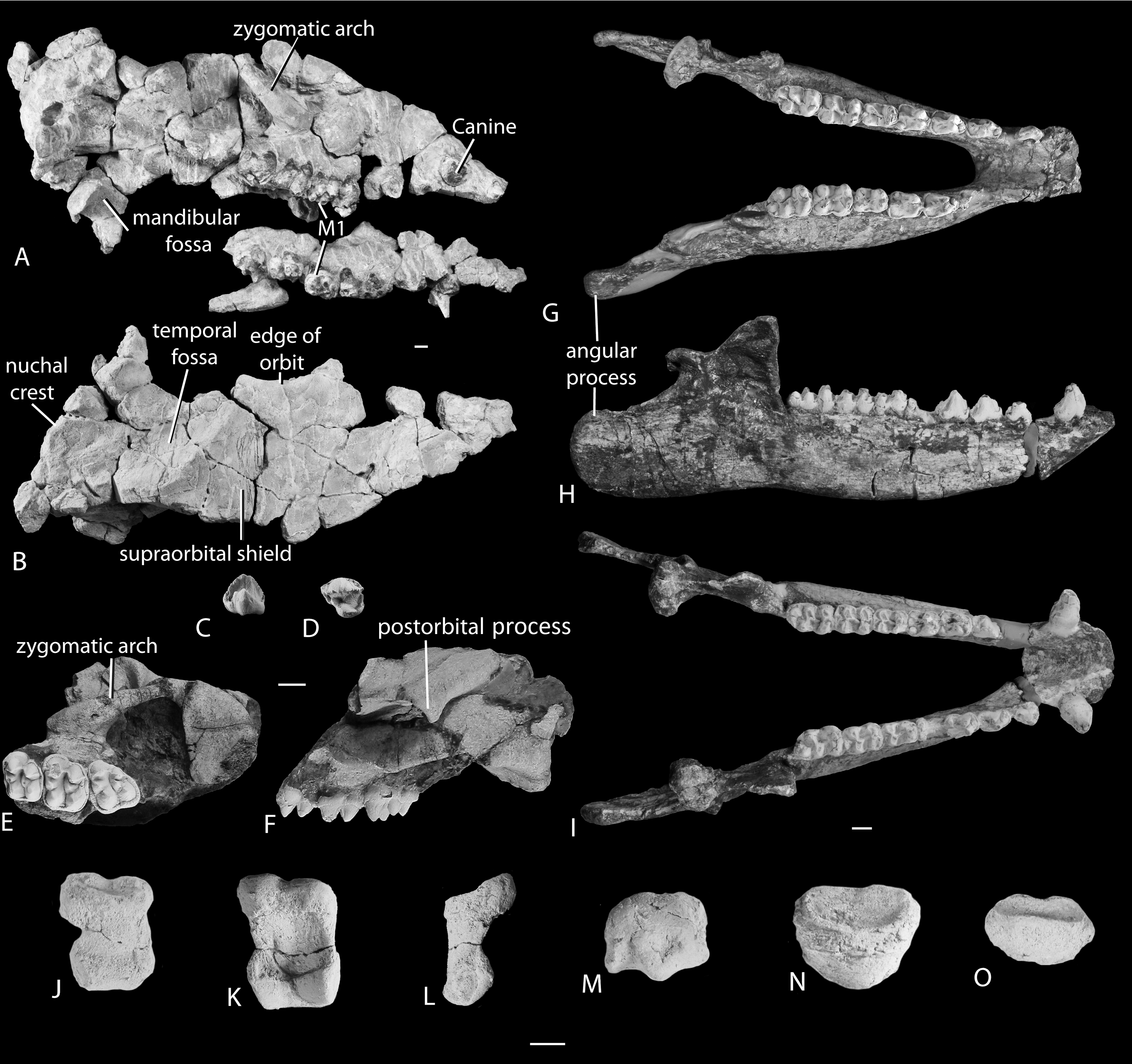 Cranial elements of anthracobunids from the middle Eocene of Indo-Pakistan. (A) Crushed skull of Anthracobune pinfoldi (H-GSP 97106) in ventro-lateral view (left maxilla detached) and (B) dorsal view; (C) P2 of A. wardi (H-GSP 30229) in lingual view and (D) occlusal view; (E) Skull fragment of A. wardi (RR 411) in occlusal view, and (F) lateral view; (G) Mandible of A. wardi (H-GSP 96434) in occlusal view; (H) Mandible of A. wardi (H-GSP 96258) in lateral view, and (I) occlusal view. (J) Proximal phalanx of A. pinfoldi (H-GSP 97106.105) in dorsal view; (K) Proximal phalanx of A. pinfoldi (H-GSP 97106.101) in ventral view, and (L) lateral view; (M) Head of a metapodial of A. pinfoldi (H-GSP 97106.250) in dorsal view; (N) Phalangeal fragment of A. pinfoldi (H-GSP 97106.257) in dorsal-superior view; (O) Terminal phalanx of A. pinfoldi (H-GSP 97106.302) in dorsal-superior view. Scale bar is 1 cm in length.